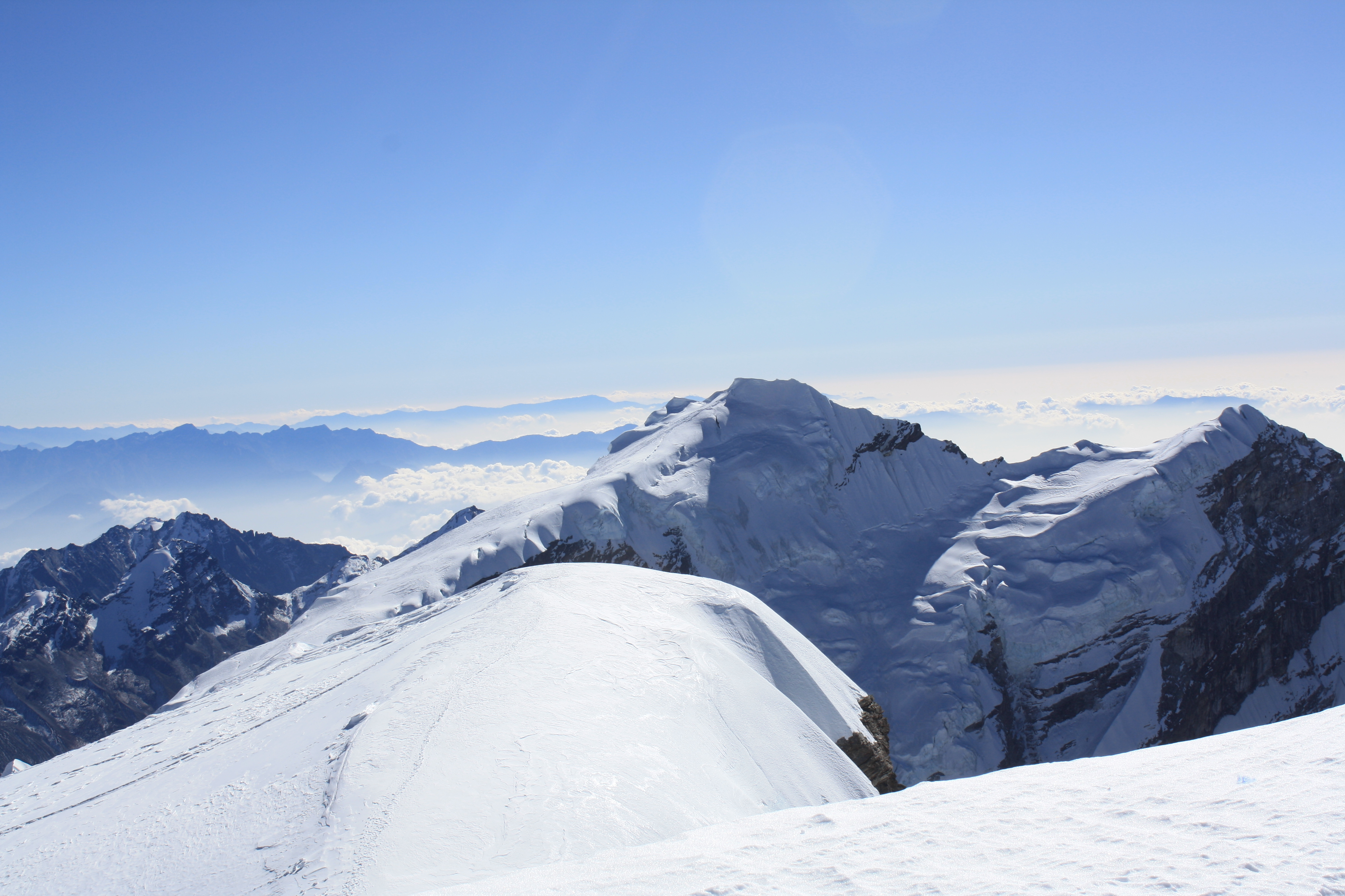 Mera Peak